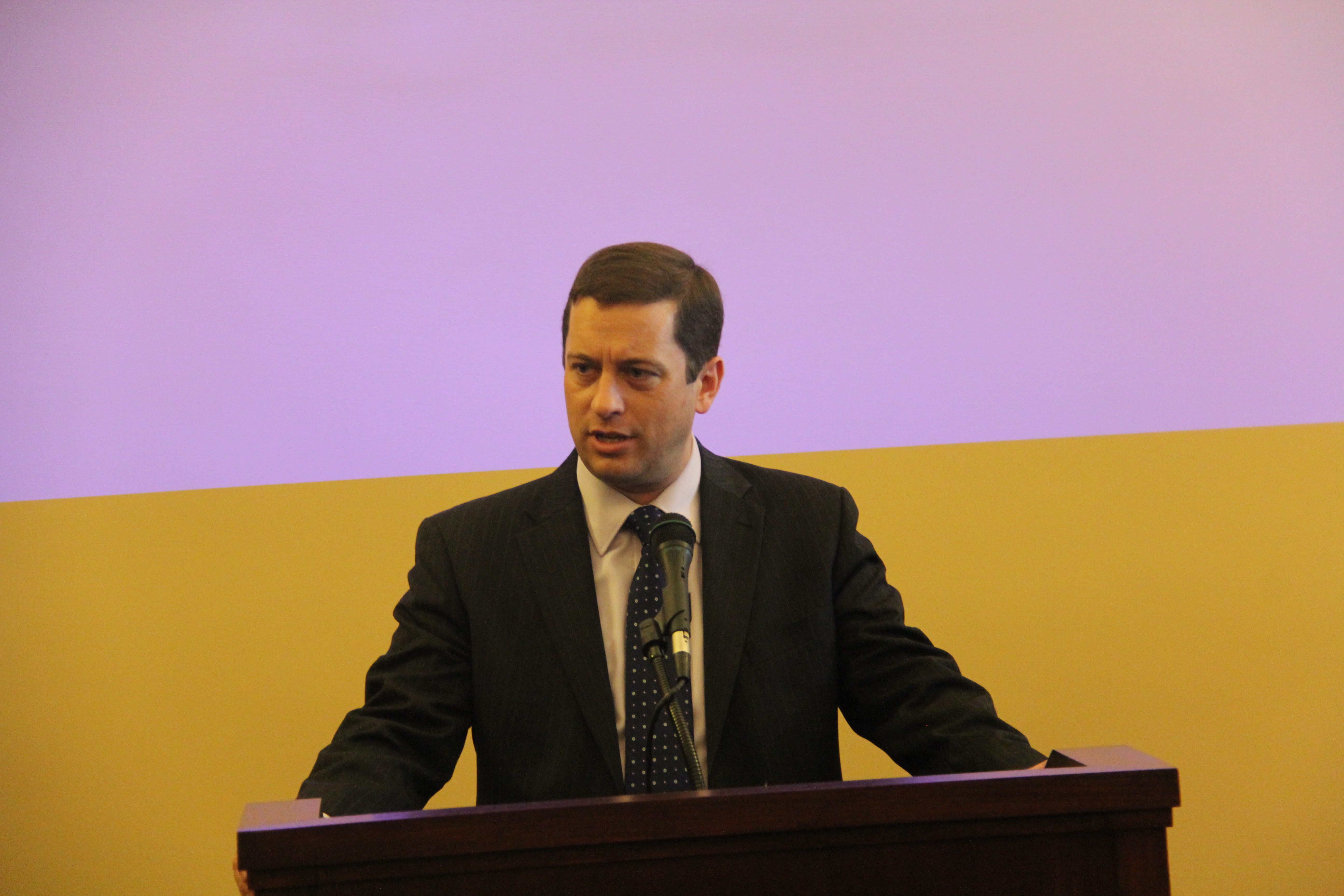 Senator Aaron Osmond